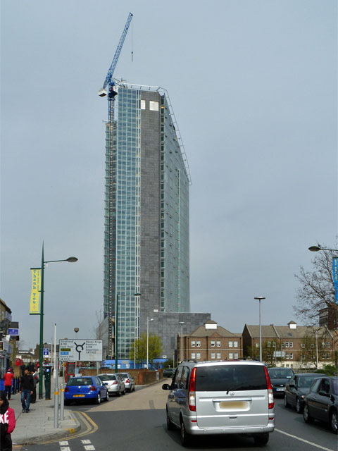 Pioneer Point nears completion